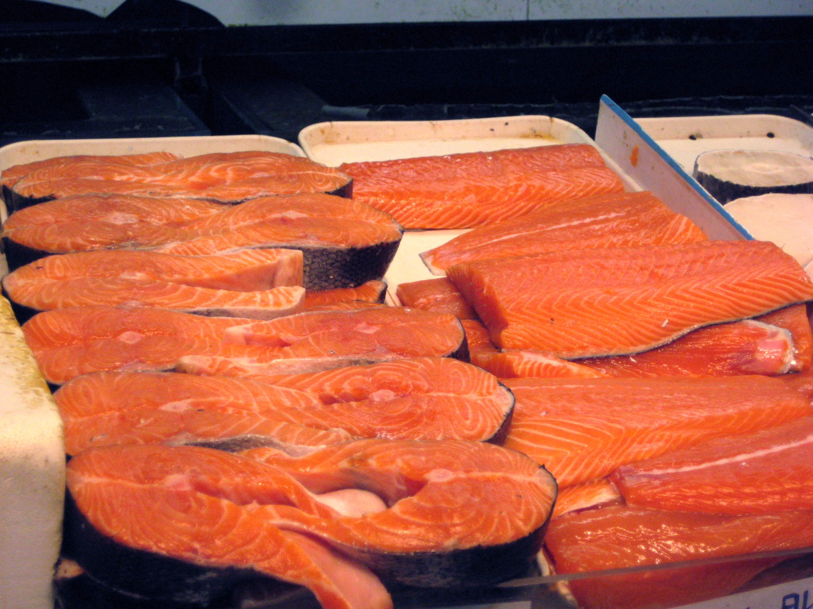 Salmon intended for consumption as food